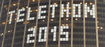 Pixel Art on the windows of the Montparnasse Tower, Paris, France. ["36 37" (14x11-pixel characters out of view) and] "TELETHON 2015" (3×5, except 4×5 for 'N'). Quickly shot by dpla with a smartphone on 2015-12-04 17:02. Disclaimer : unknown amateur designer or pixel-artist (dpla did not make this pixel art, just took the photograph, knowing that this 3×5-alike lettering had decades of precedence).